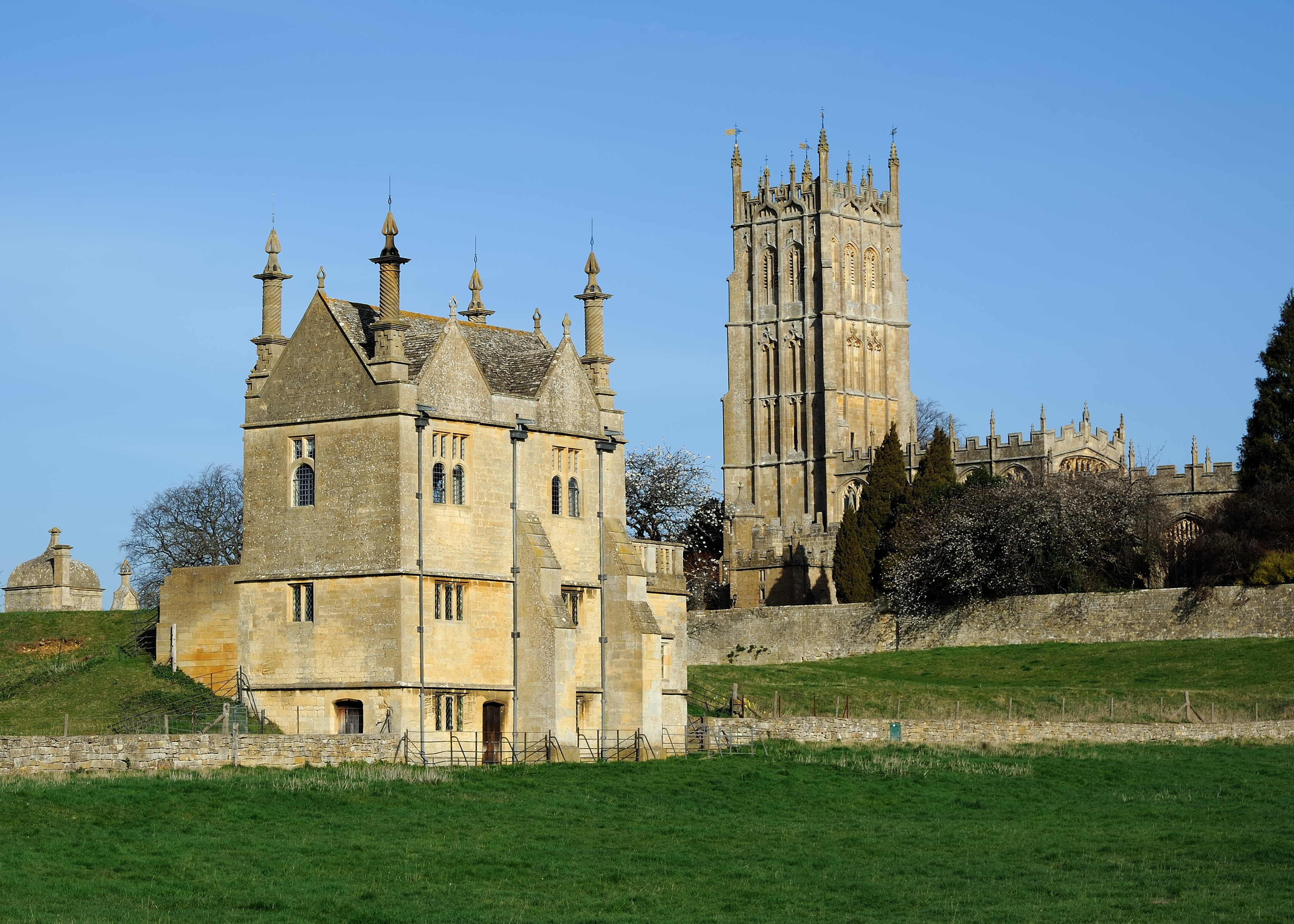 The gate and East Banqueting House of Campden Court and St James's Church in Chipping Campden